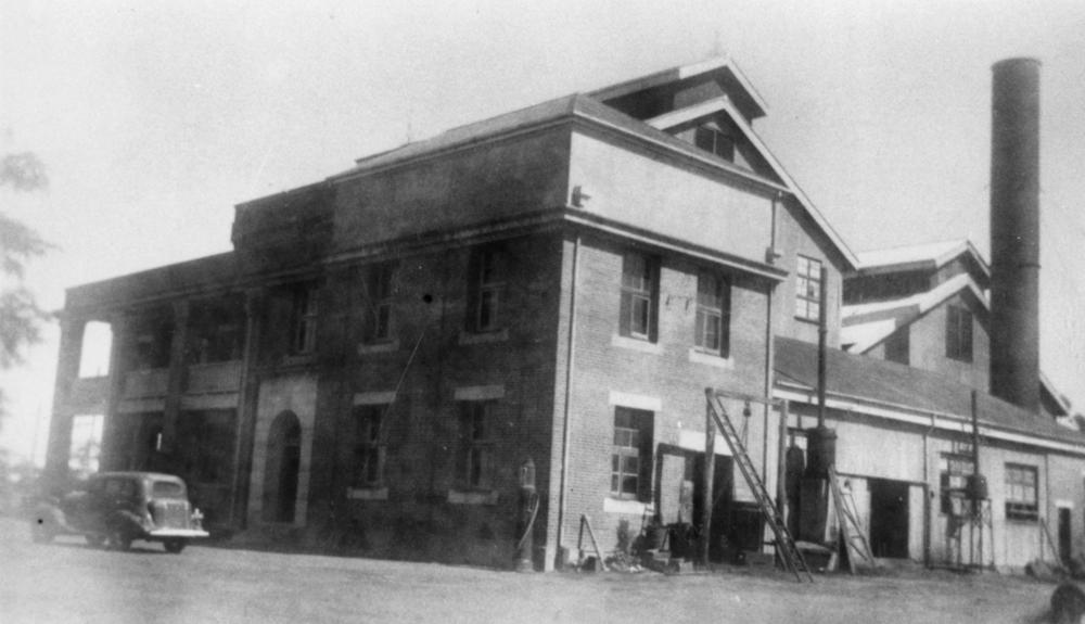 Home Hill Power Station, ca. 1946 Electric power from the Home Hill Power Station was used to pump water from the Burdekin Delta for irrigation. (Description supplied with photograph).